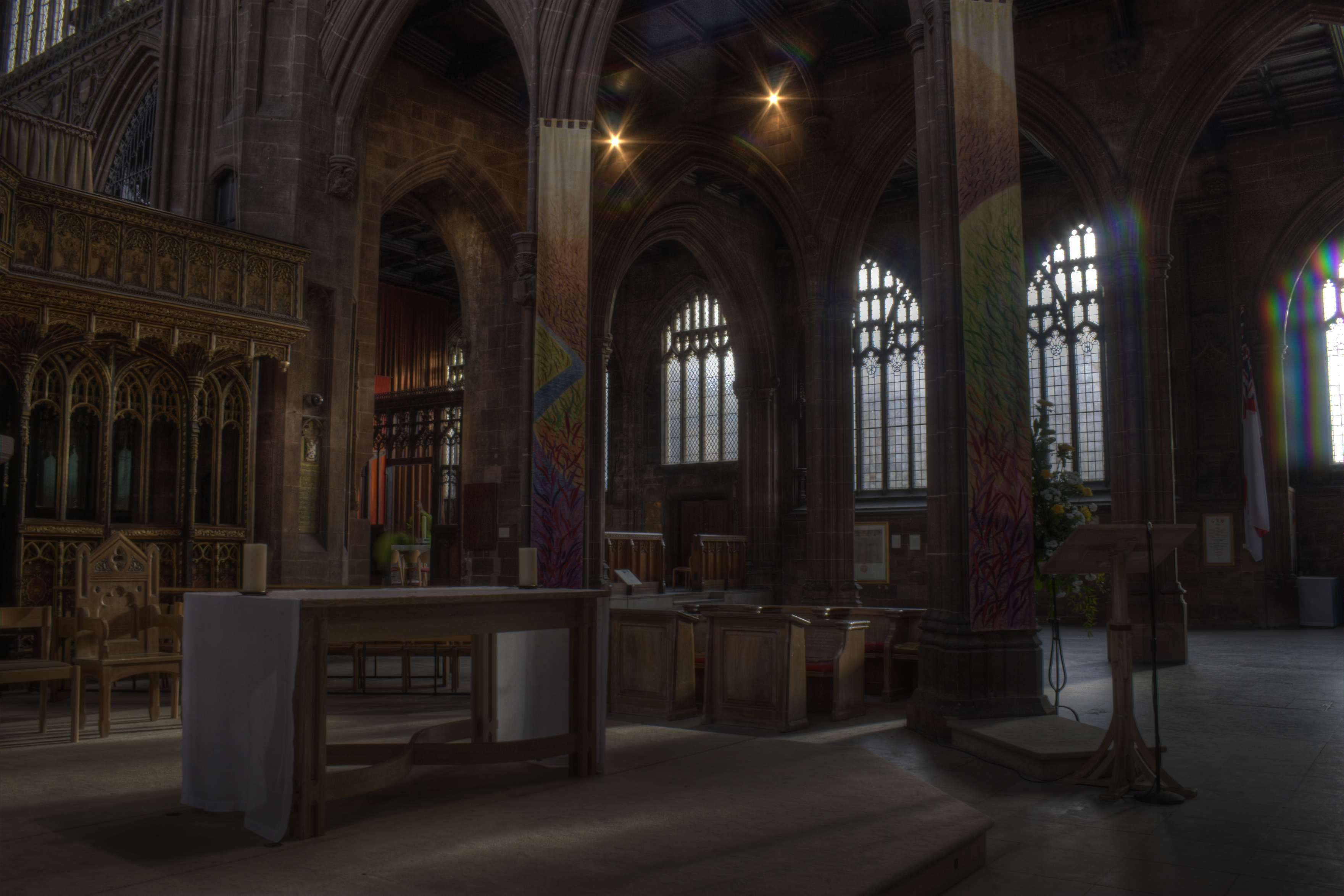 Interior of Manchester Cathedral, shot aligned for Fall of Man article.